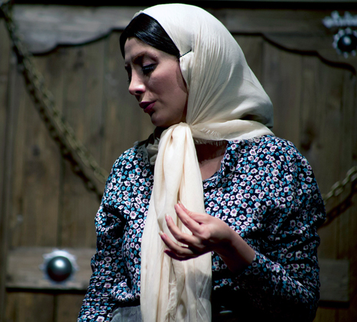 رویا میرعلمی در نمایش همسایه آقا